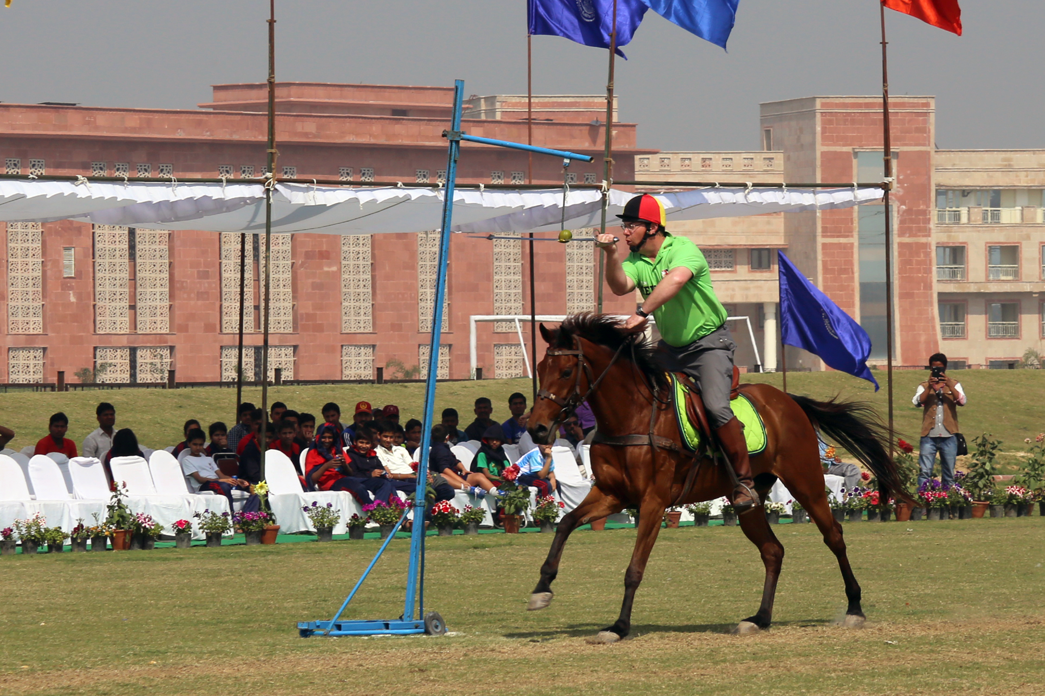 "Lemon and Pegs" tentpegging competition at a tournament in India